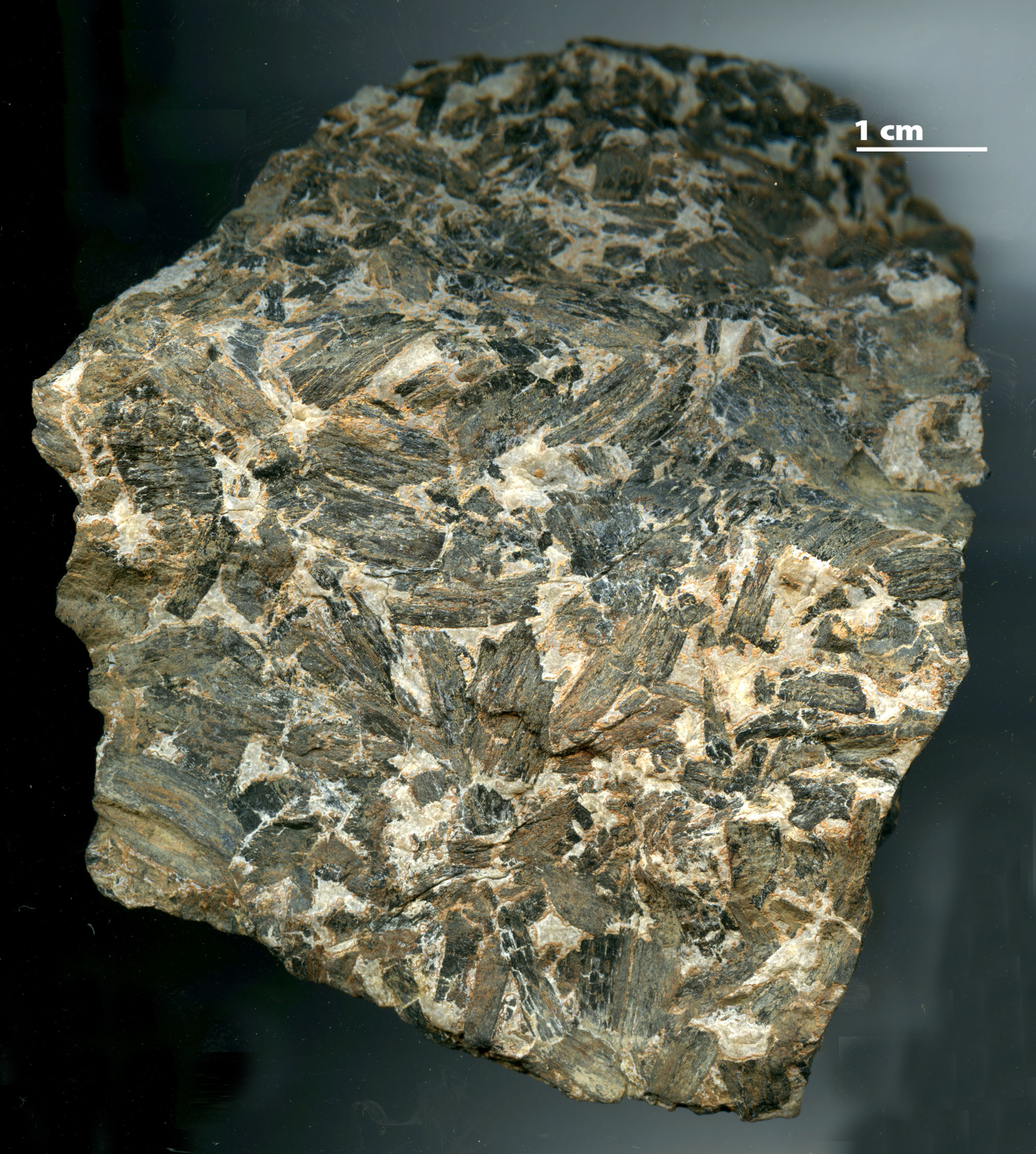 An example of fusain, charcoal that has been fossilized. Charcoal partially burned during a Carboniferous fire about 309 mya. Found at a spoil pile from an underground coal mine in Grundy County, Illinois, USA.